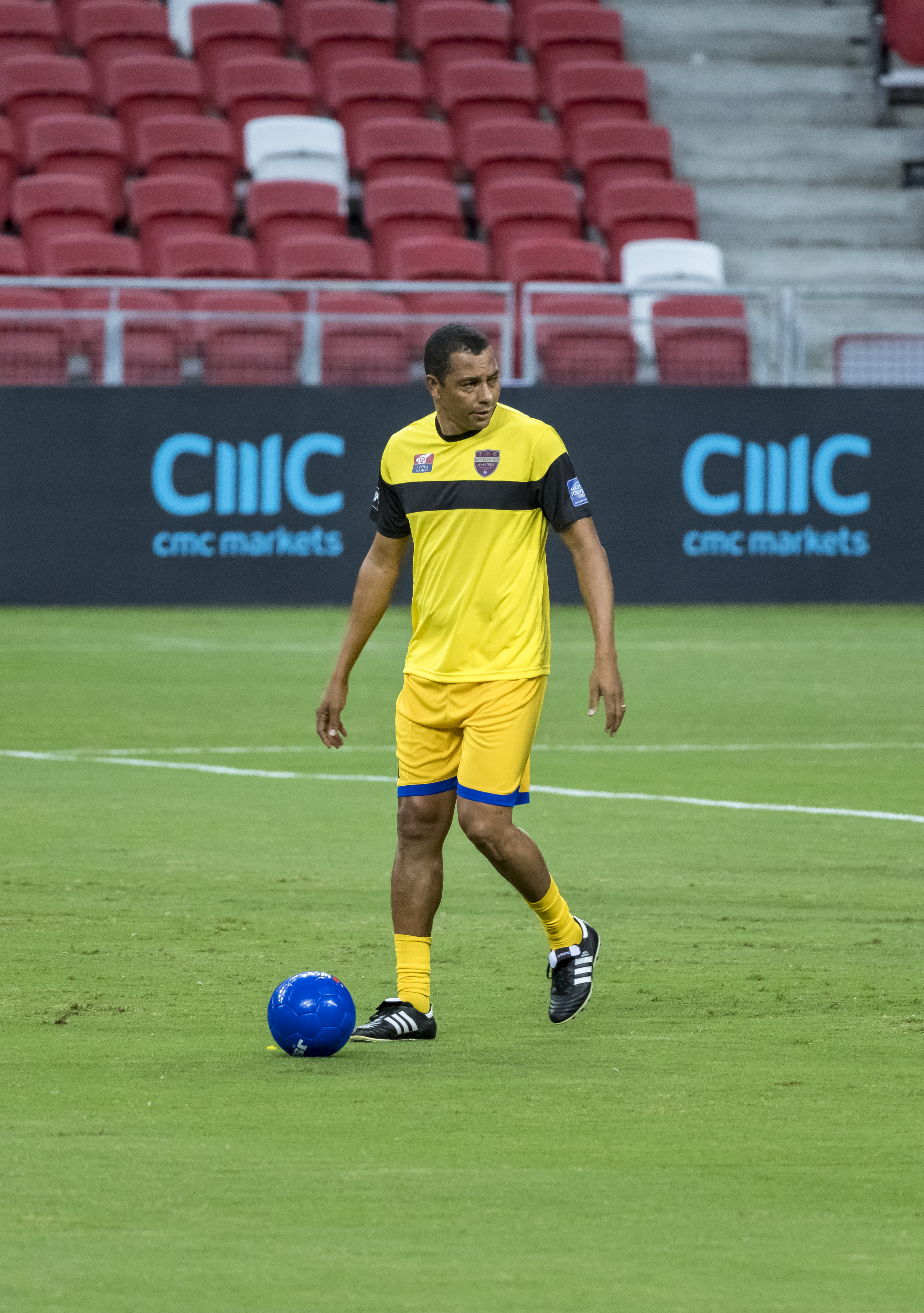 gilberto silva arsenal masters singapore national stadium 2017